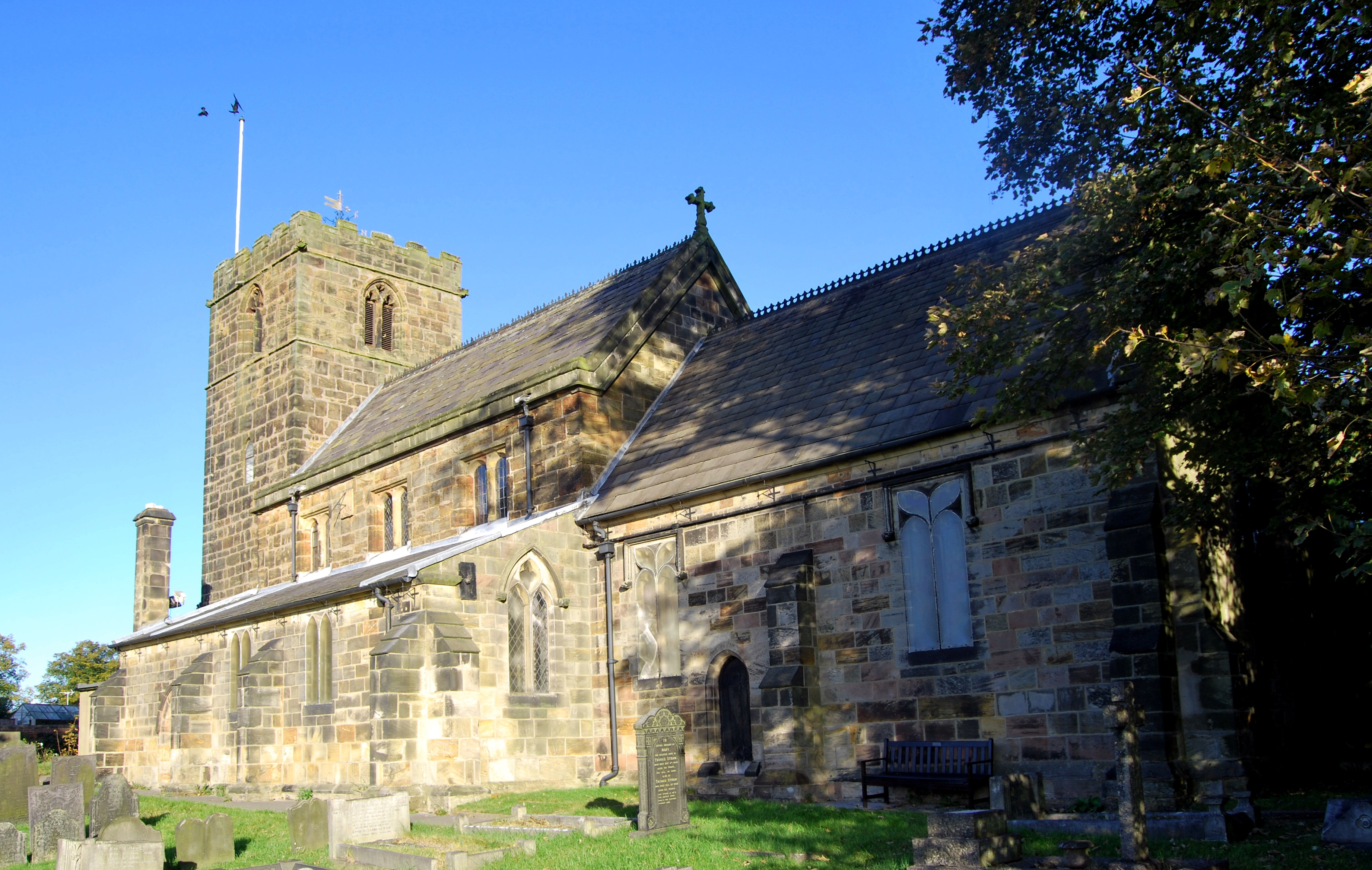 St Wilfred's Church West Hallam Derbyshire